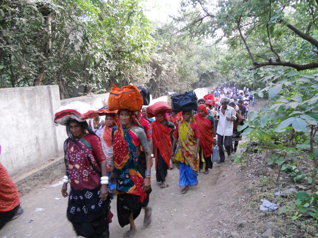 Pligrims at Girnar Parikrama.